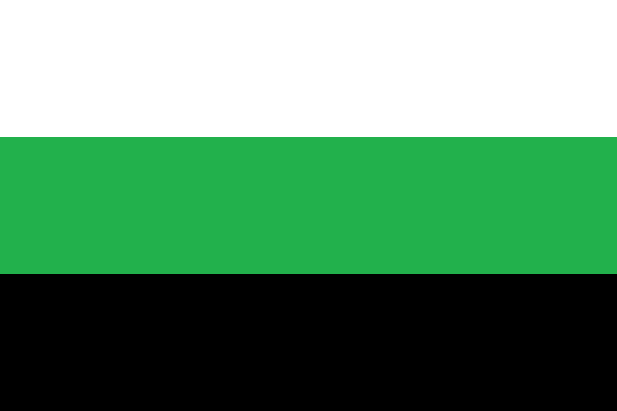 Flag of the Tungus Uprising (Tungus Republic, 1924-1925).